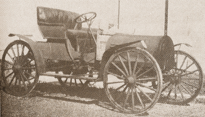 1909 Kearns Storm Queen Doctor's Special High wheeled Motor Buggy